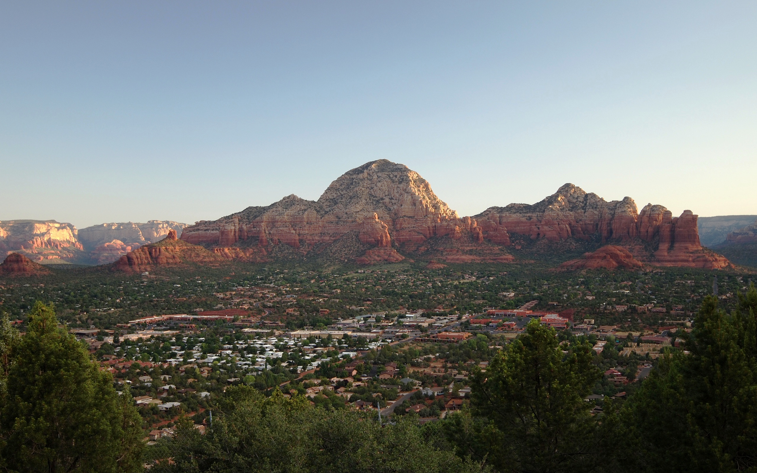 Coffee Pot Rock (right), Capitol Butte (center) and Chimney Rock (left) at sunrise, as seen looking north from the Sky Ranch Lodge on Airport Mesa in Sedona. Photo taken with an Olympus E-P1 in Yavapai County, AZ, USA. Cropping and post-processing performed with The GIMP.